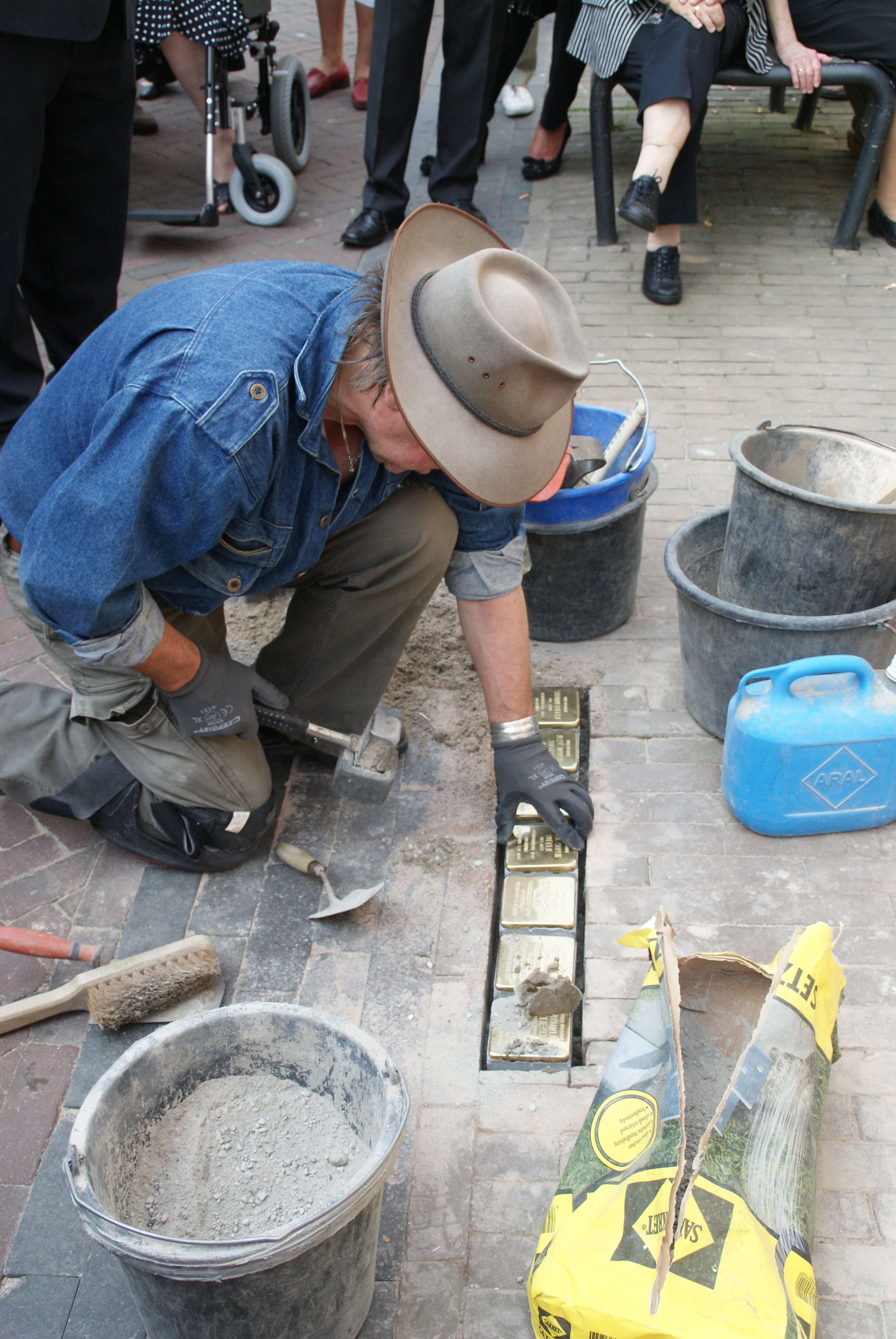 demnig at work in Kampen/The Netherlands on April 21, 2011